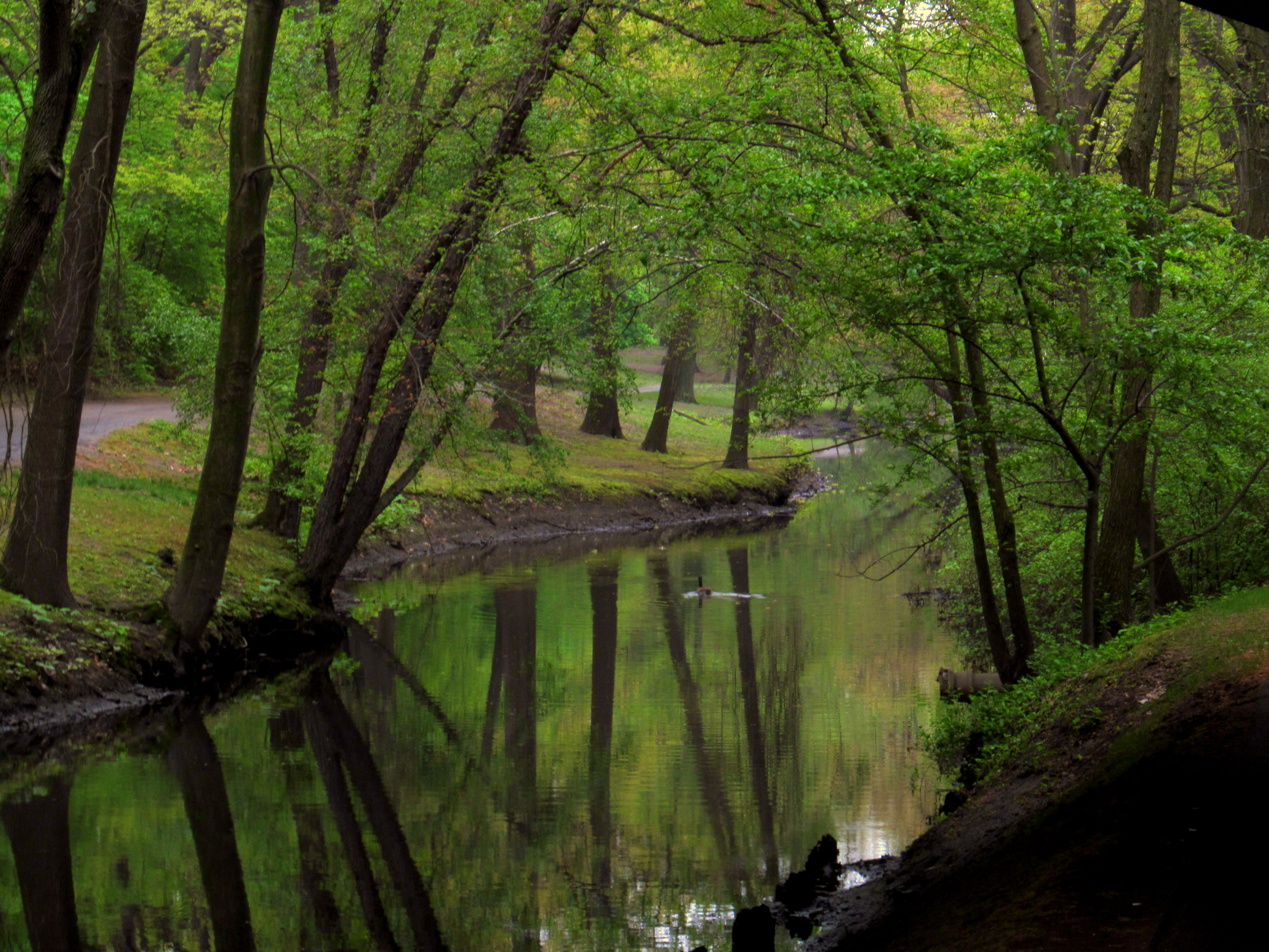 Greenery in the Emerald Necklace near Longwood Avenue in May 2012